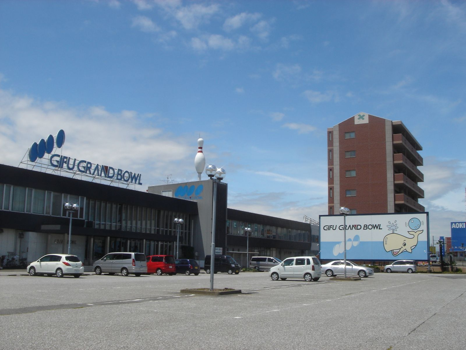 Gifu Grand Bowl in Mizuho city